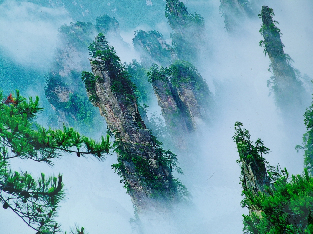 the World Heritage Site:Wulingyuan in Zhangjiajie of Hunan, P.R. China